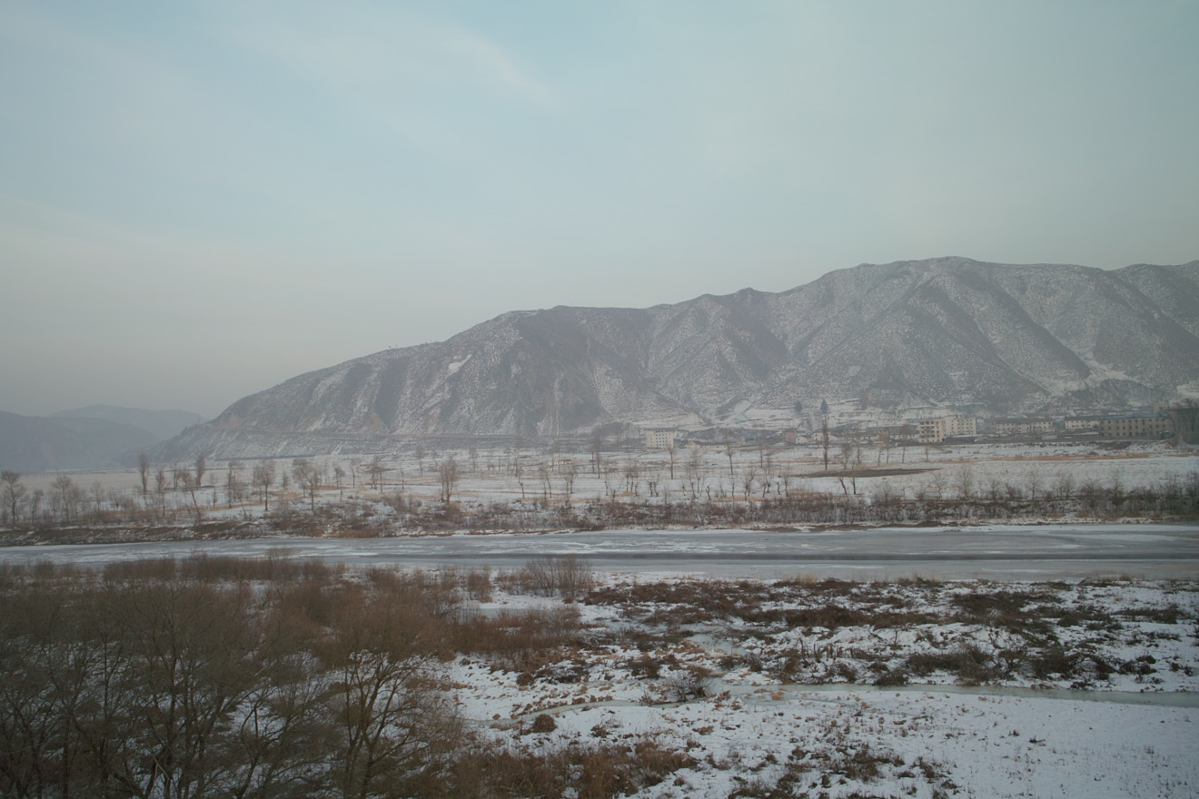 The Tumen River, at the border between North Korea and China. Picture taken from the Chinese side of the Tumen River at Tumen City; the city of Namyang, North Korea is on the other side of the river.